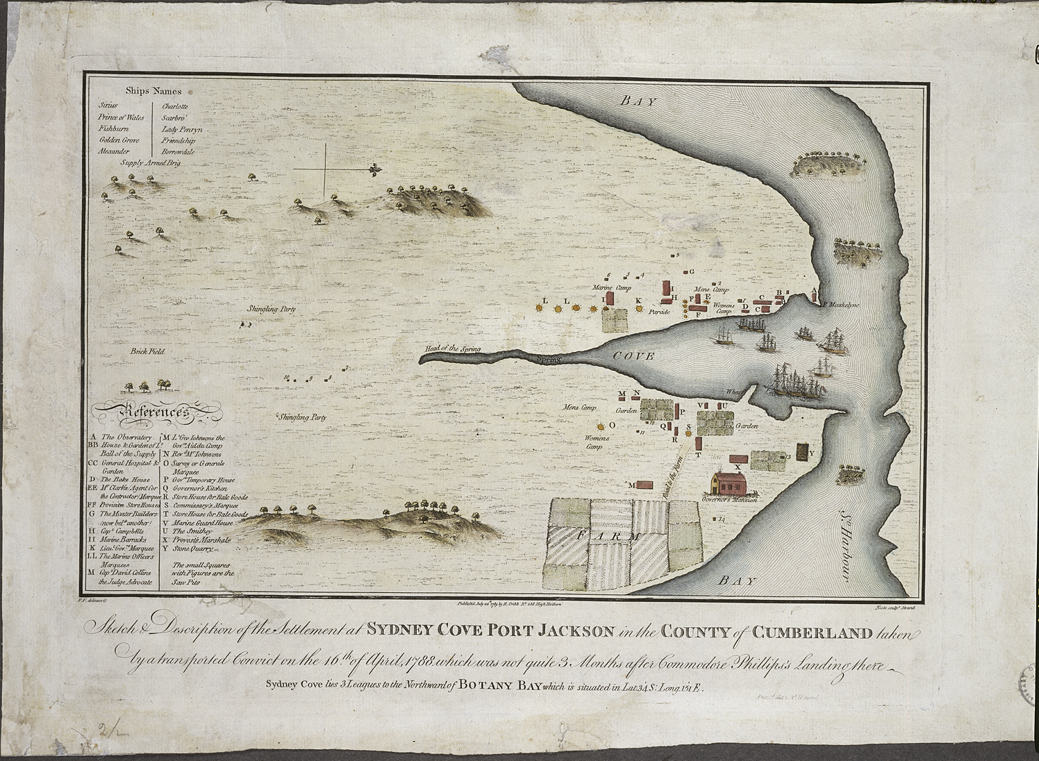 A rare engraving of the settlement at Port Jackson, Sydney Harbour, listing the eleven ships of the First Fleet, with 'References' marking the buildings, tents, sawpits, workshops, storehouses and gardens. Probably by Francis Fowkes, a former navy midshipman transported to the colony of New South Wales for seven years for theft of a coat and boots. Fowkes was a trained artist. This engraving is one of only two copies known to exist.